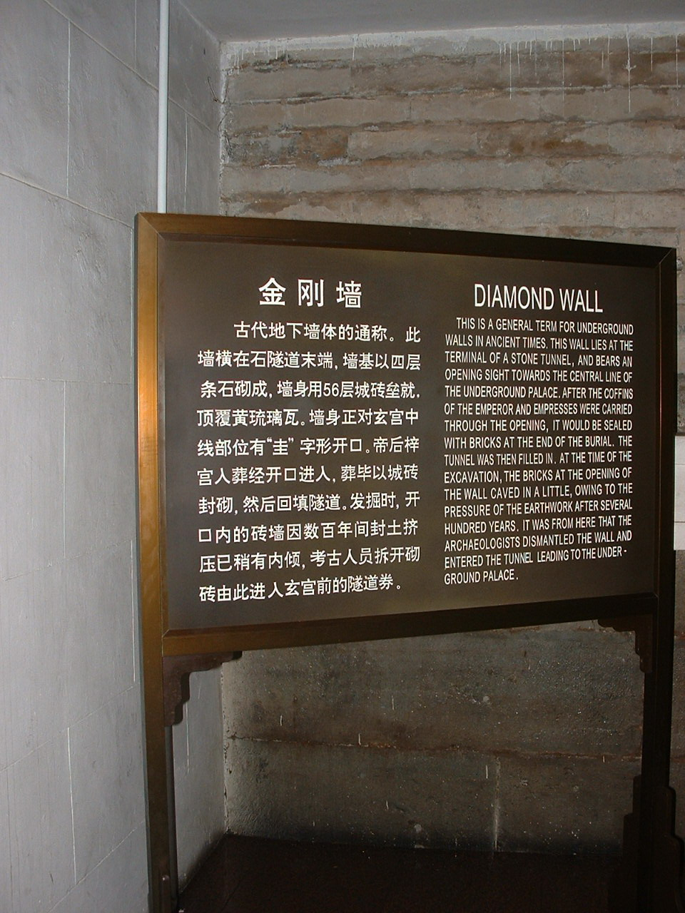 Picture taken by Lukacs in China, Ming tumbs, in 2005.